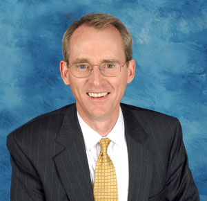 Bob Inglis, member of the United States House of Representatives.